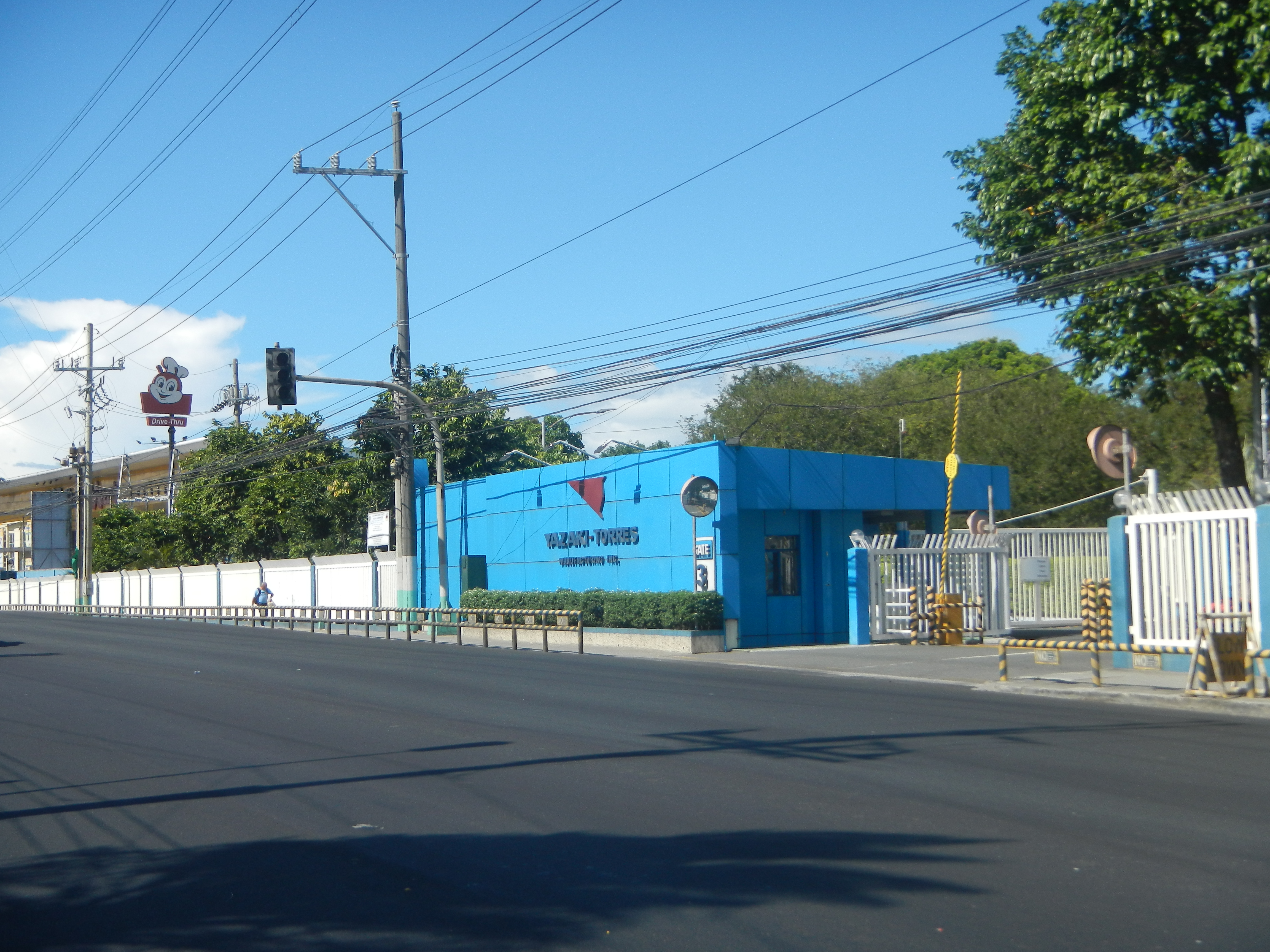 Maharlika Highway (Real, Turbina, Milagrosa & Makiling, Calamba City section) Pan-Philippine Highway Barangay Real, Calamba besideTurbina,_Calamba Milagrosa Makiling, Calamba , Makiling 14°9'8"N 121°8'17"E Calamba, Laguna Maharlika Highway (Santo Tomas, Batangas section) Pan-Philippine Highway N1 of the nation's Philippine highway network (Note: Judge Florentino Floro, the owner, to repeat, Donor Florentino Floro of all these photos hereby donate gratuitously, freely and unconditionally Judge Floro all these photos to and for Wikimedia Commons, exclusively, for public use of the public domain, and again without any condition whatsoever).